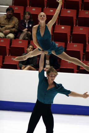 Bianca Butler & Joseph Jacobsen perform a lift during their short program at the 2007-2008 Junior Grand Prix event in Lake Placid, New York, United States. They placed sixth in this segment of the competition and fourth overall.